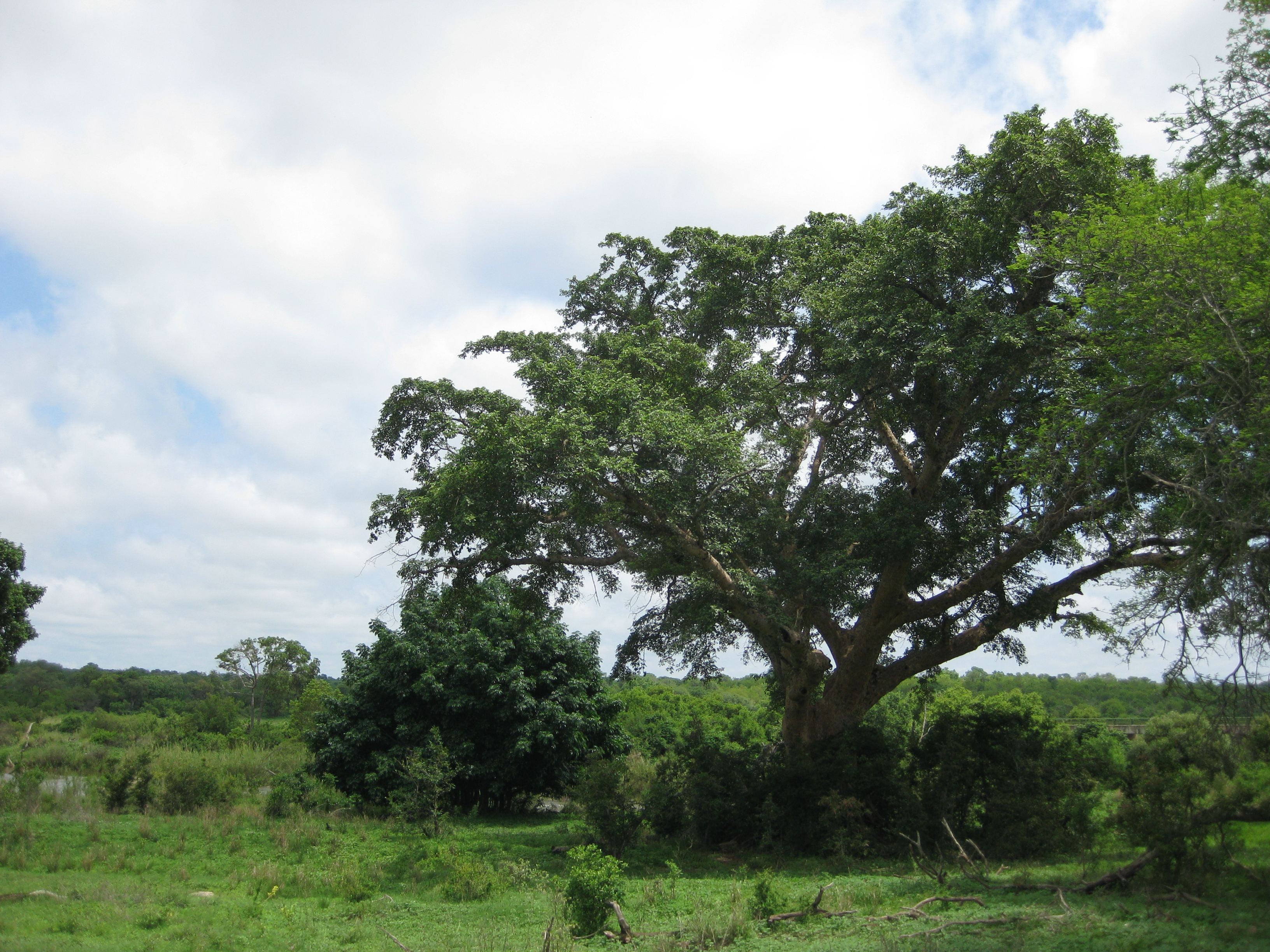 A beautiful Sycamore fig on the south bank of the Sabie river, southern Kruger National Park, South Africa